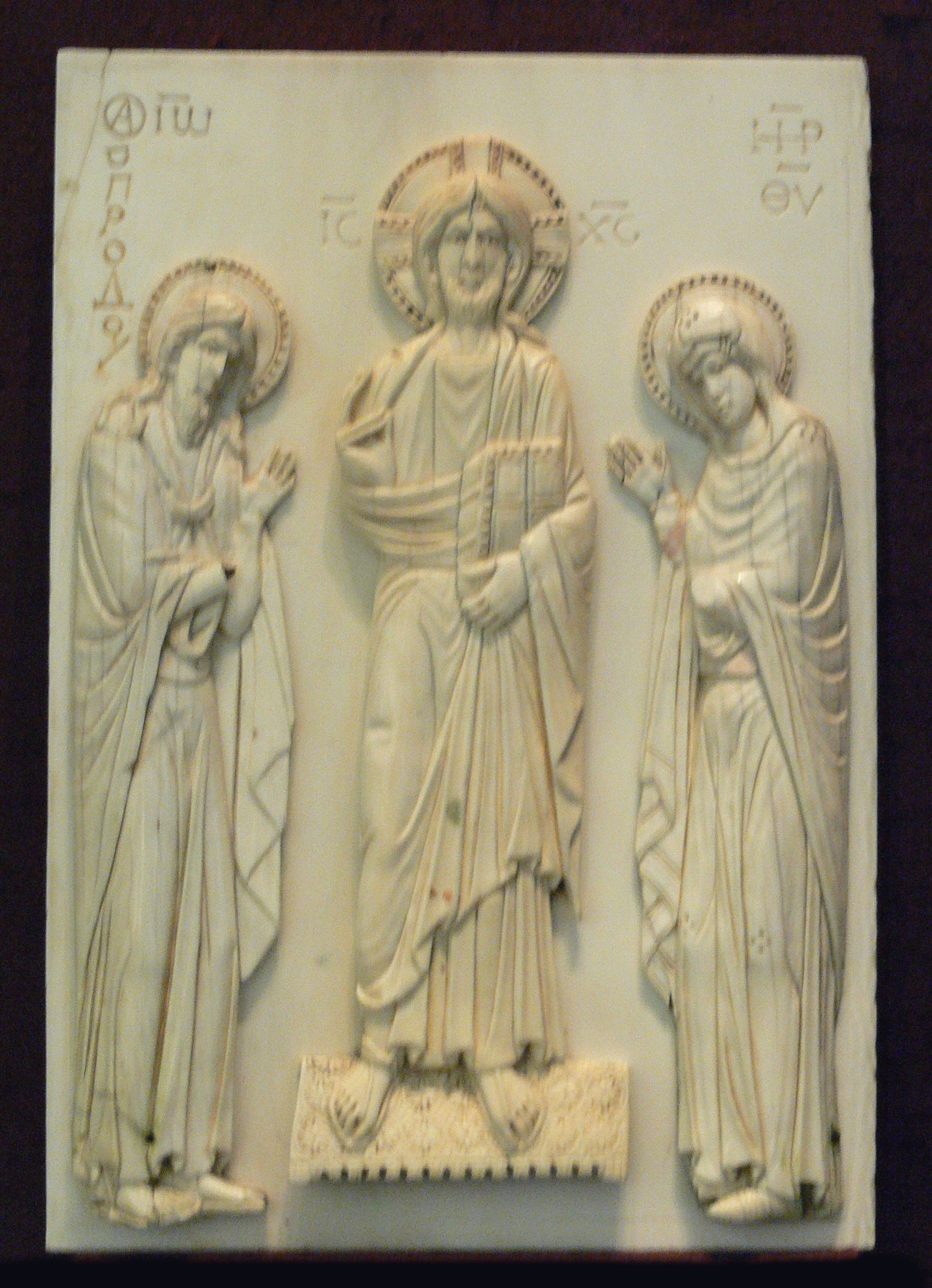 Christ between Mary and John the Baptist (Deesis; Ivory; Byzantium, 10th century Bayerisches Nationalmuseum München, Inv. MA 159; 1866 aus den königlichen Sammlungen überwiesen